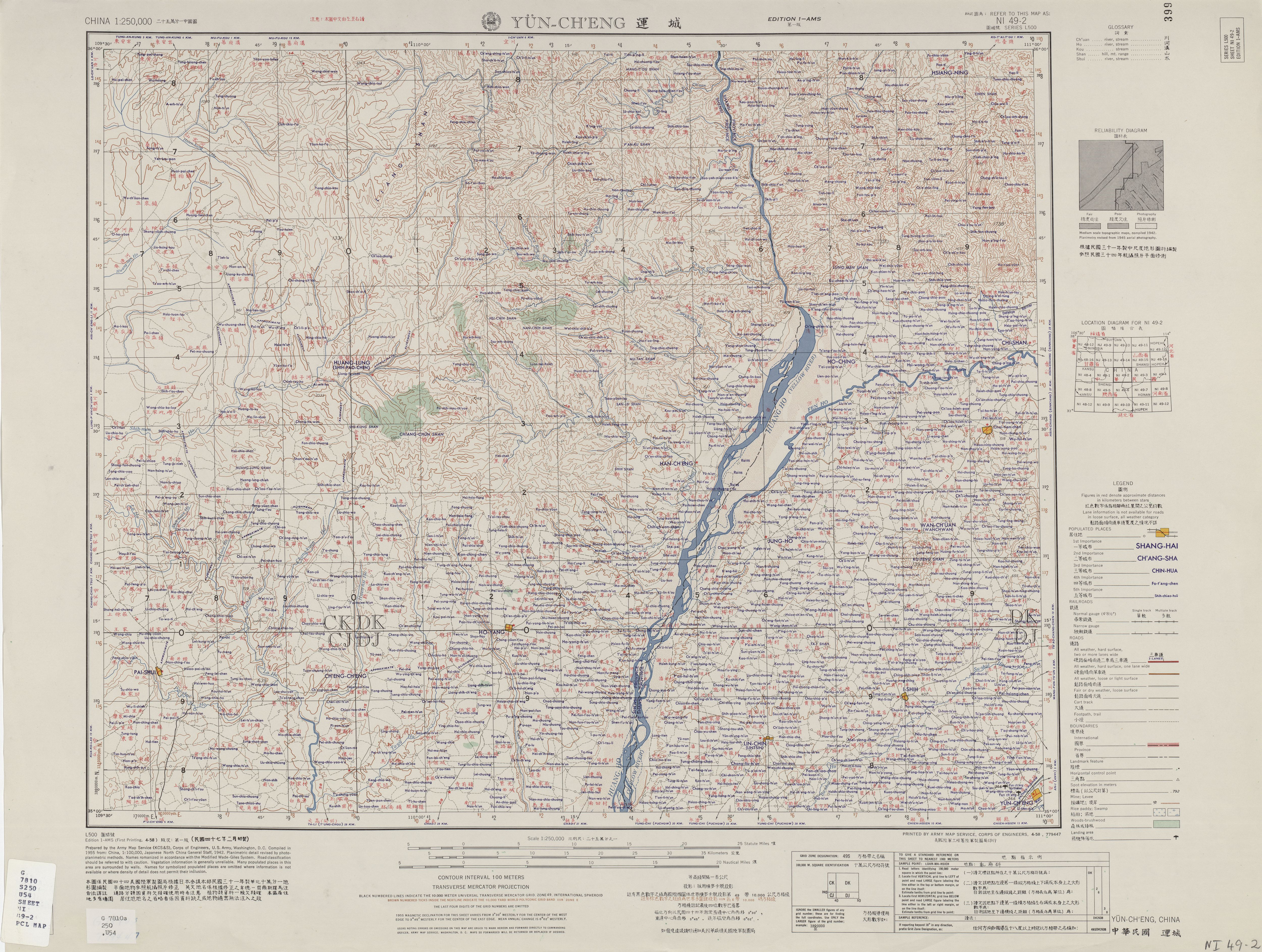 China AMS Topographic Maps